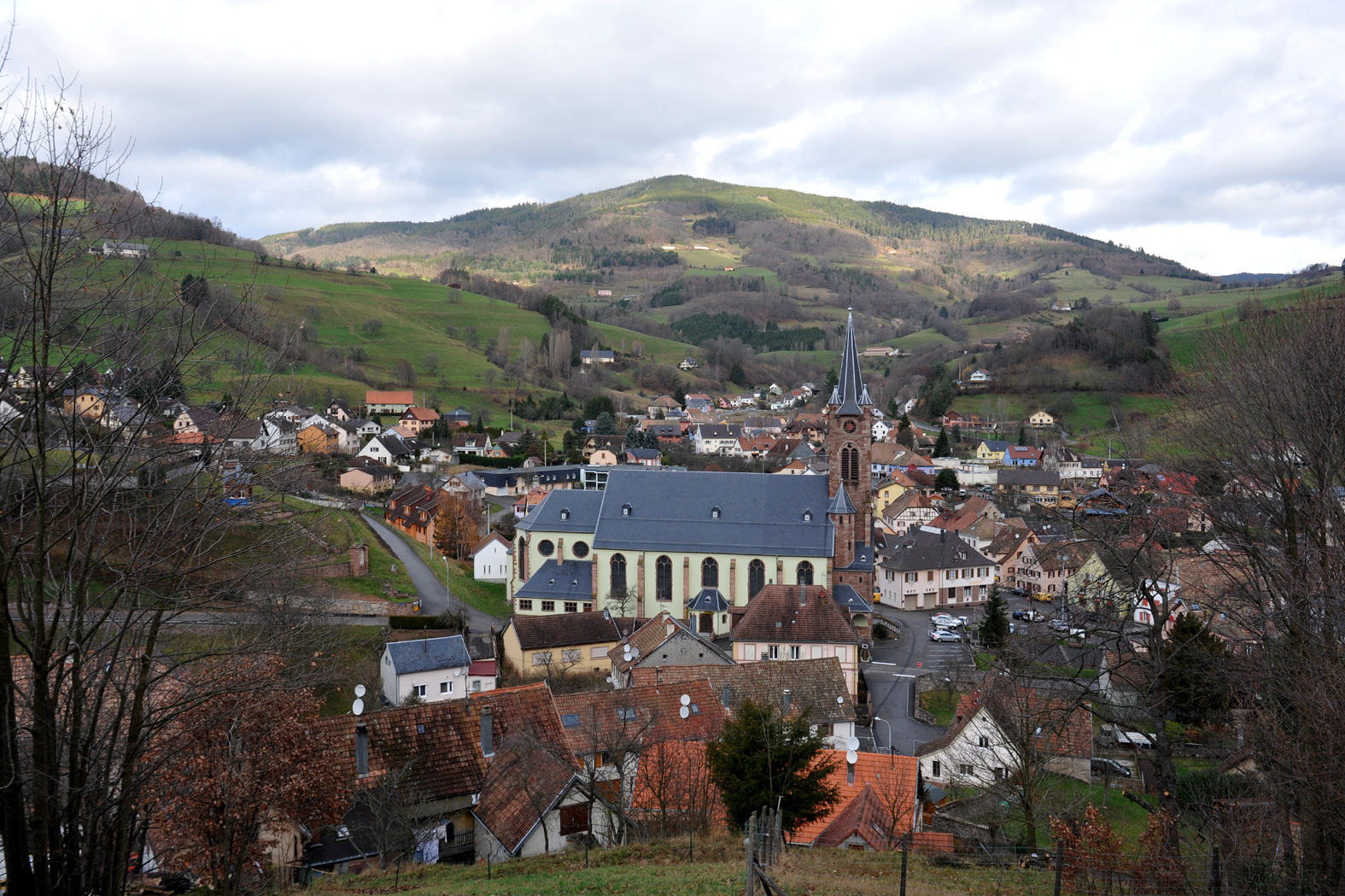 View from south to Lapoutroie; Haut-Rhin, France.